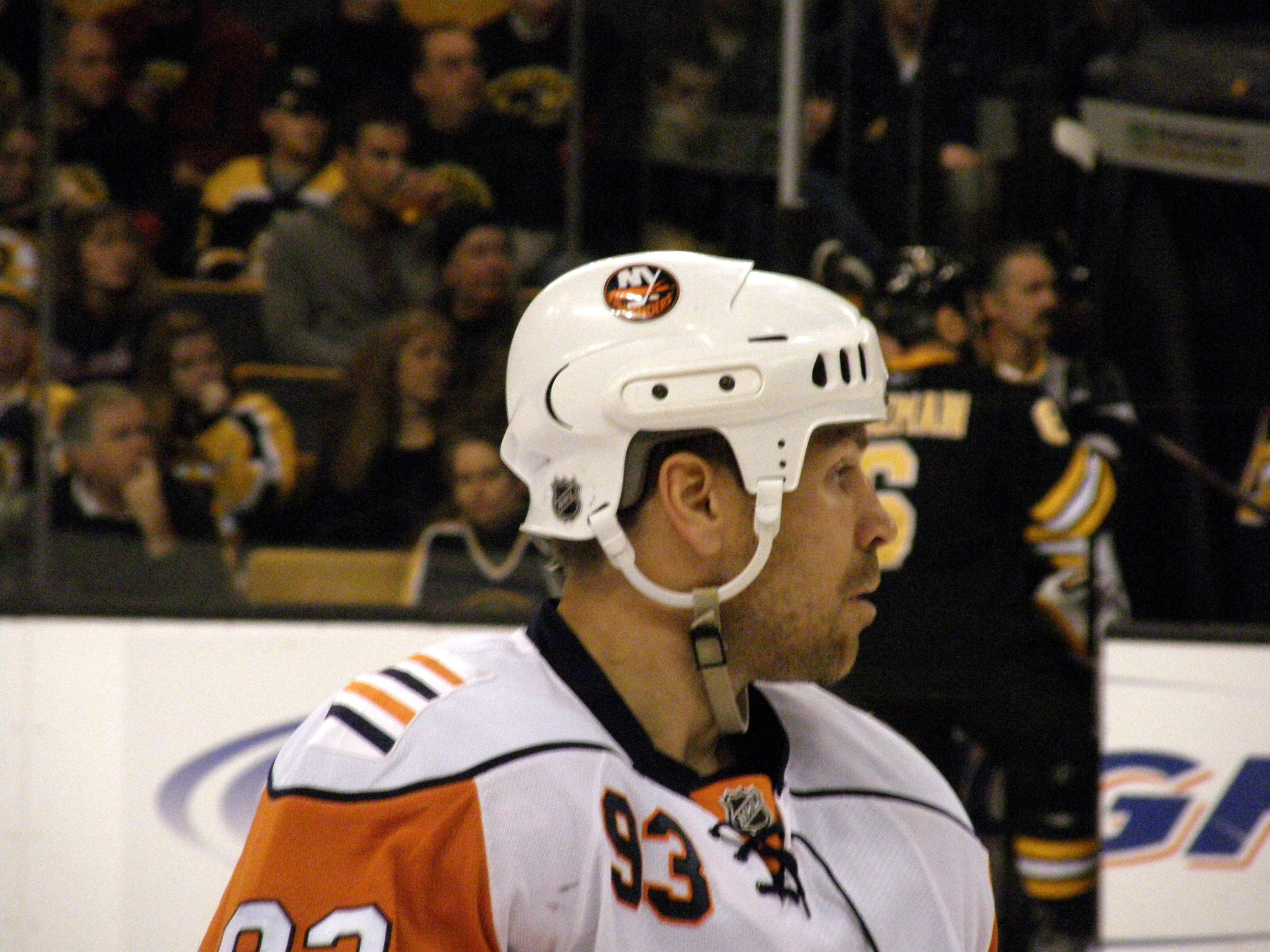 Doug Weight